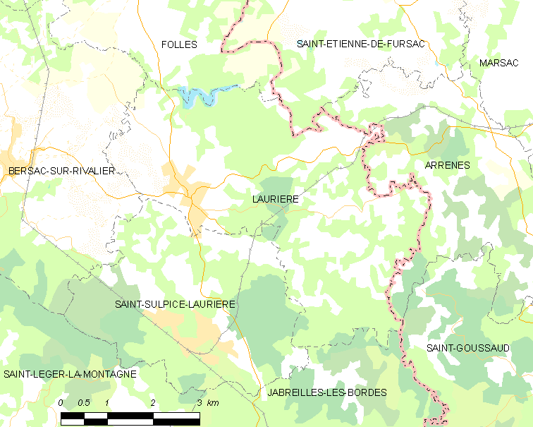 Map of French municipality Laurière